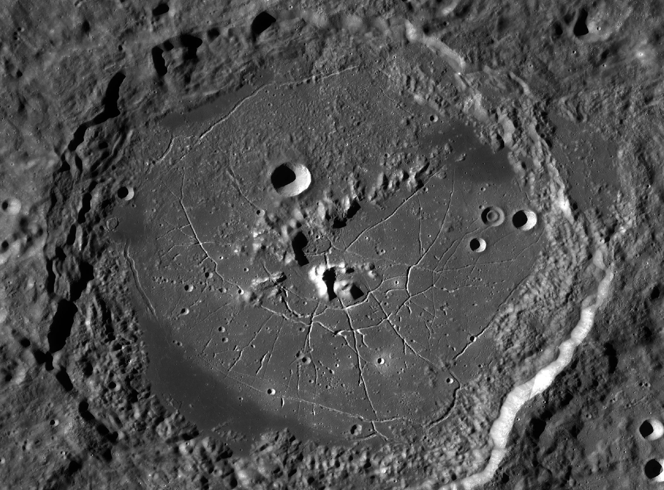 Humboldt crater, on the moon. LRO Wide Angle Camera mosaic.